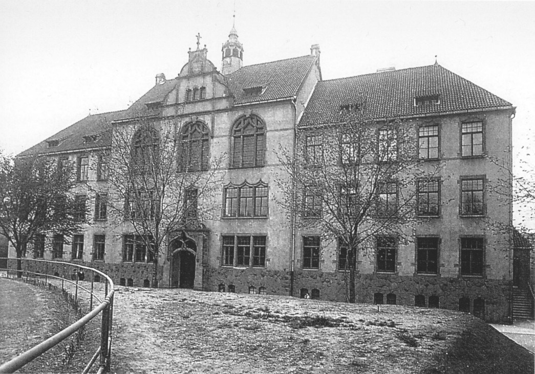 Building of the Latina of the Franckesche Stiftungen in Halle/Saale, about 1925